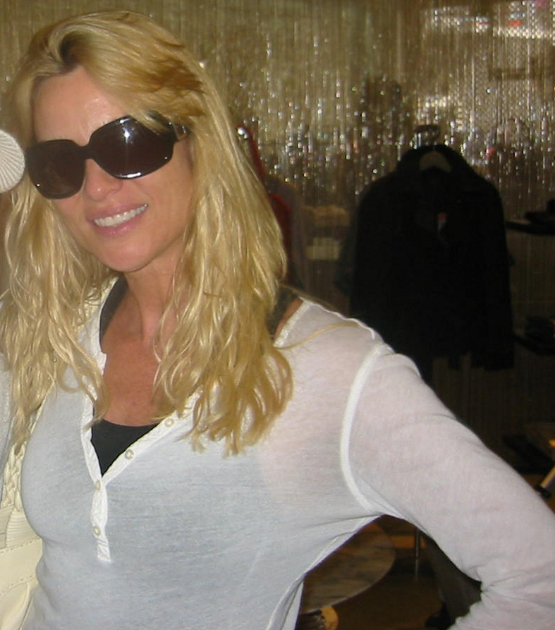 The photo represents actress Nicollette Sheridan.